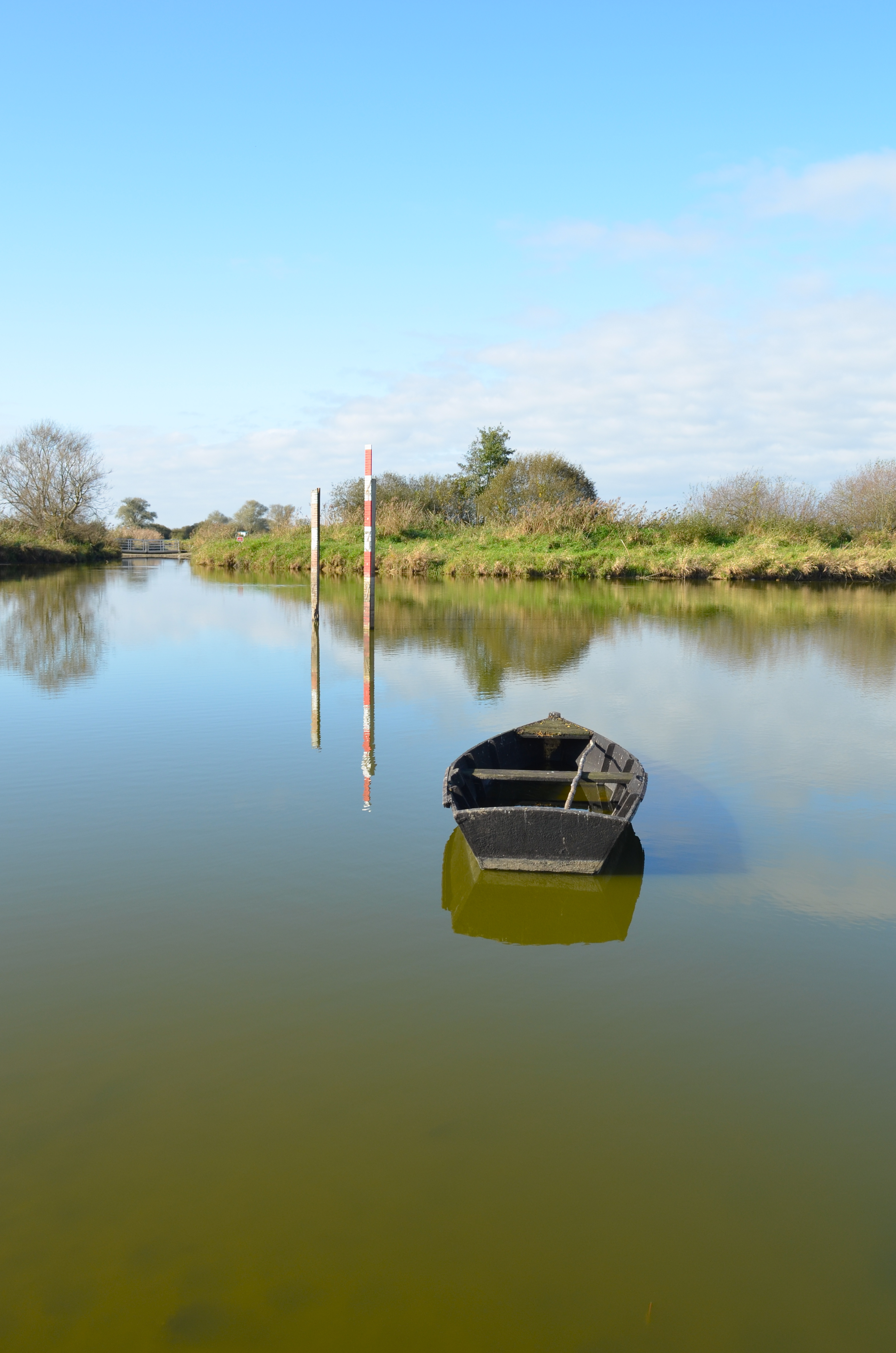 Grand-Lieu lake, view from Passay - La Chevrolière (Loire-Atlantique) - France